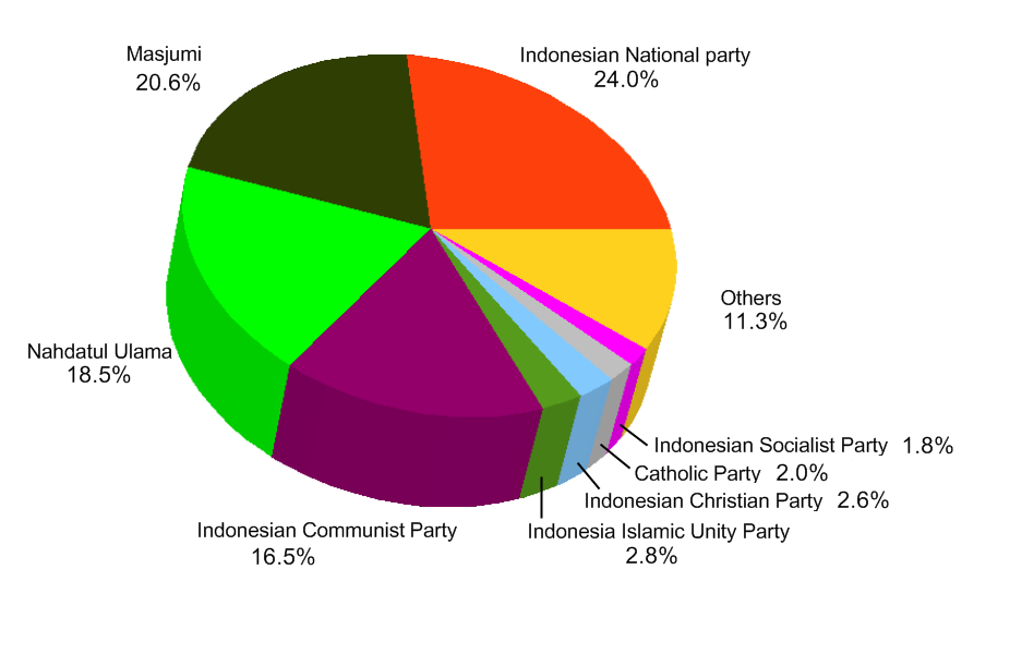 Results of the 1955 Indonesian legislative election